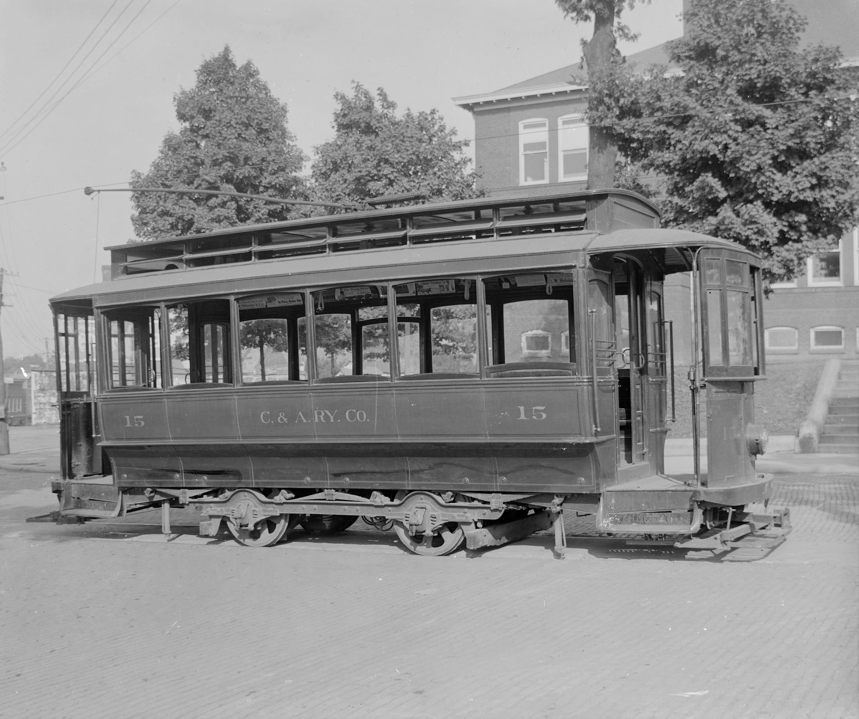 Charlottesville and Albemarle Railway Company streetcar #15 in Charlottesville, Virginia. Retouched and cropped slightly to remove blemishes.